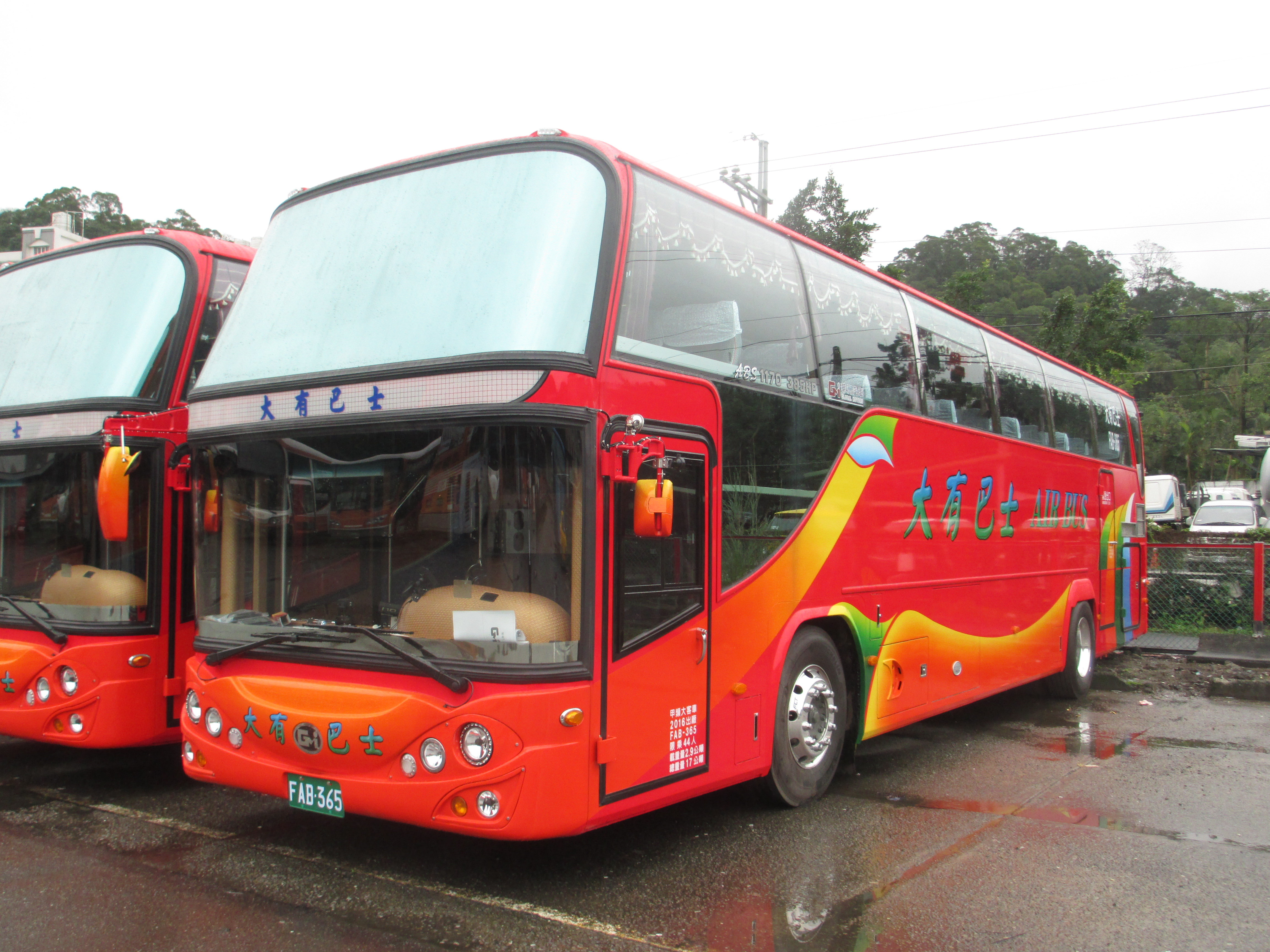 CitiAir Bus GLOBAL MOTORS 1170KR1